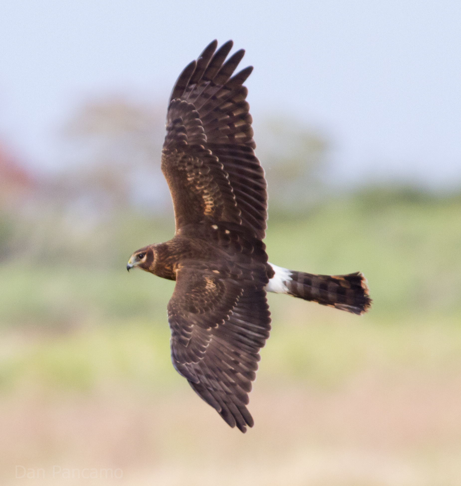 Northern Harrier Circus hudsonius in flight, Brazoria, Texas, USA